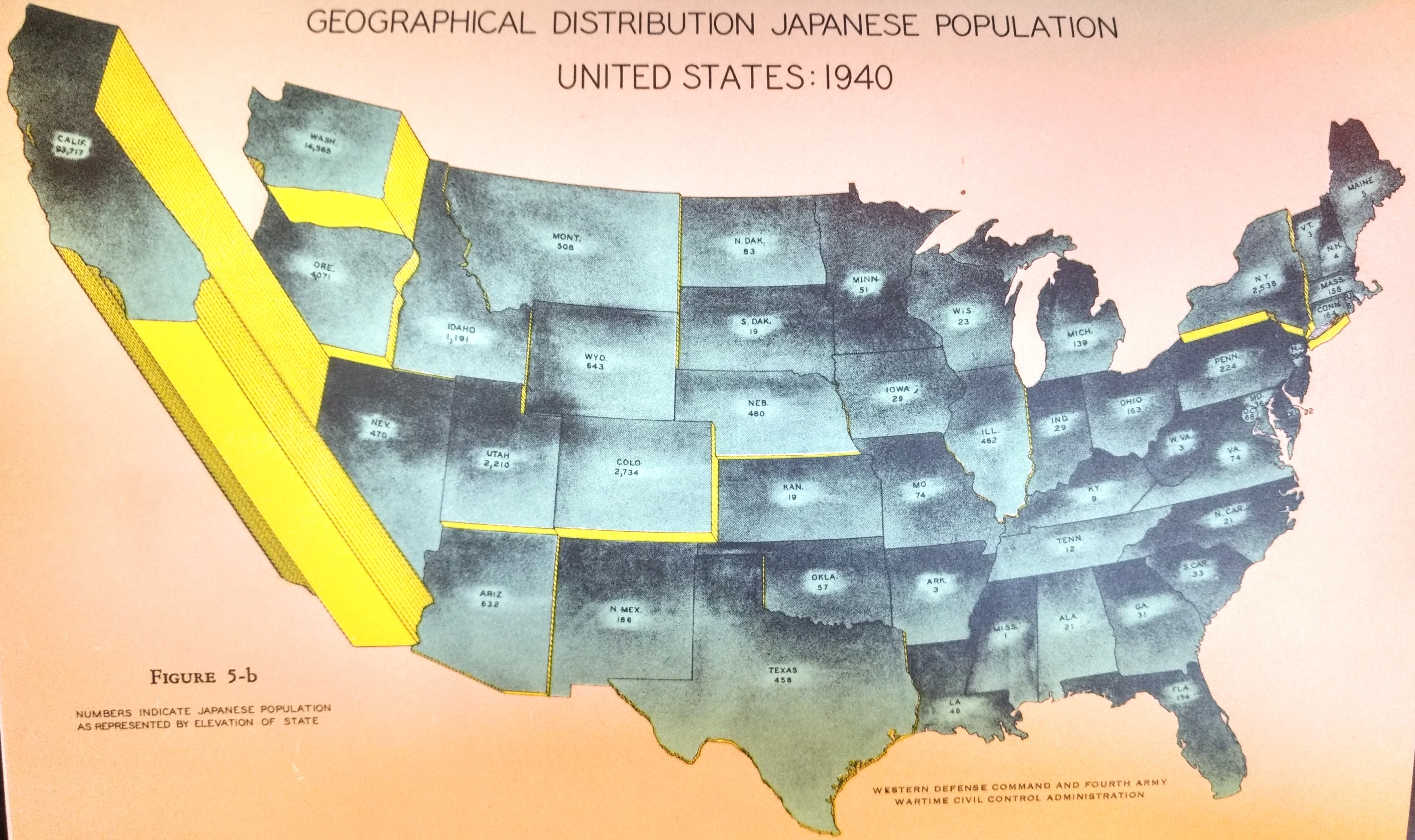 A scan from the "Final Report Japanese Evacuation From the West Coast 1942" showing a state-by-state population of the Japanese American population